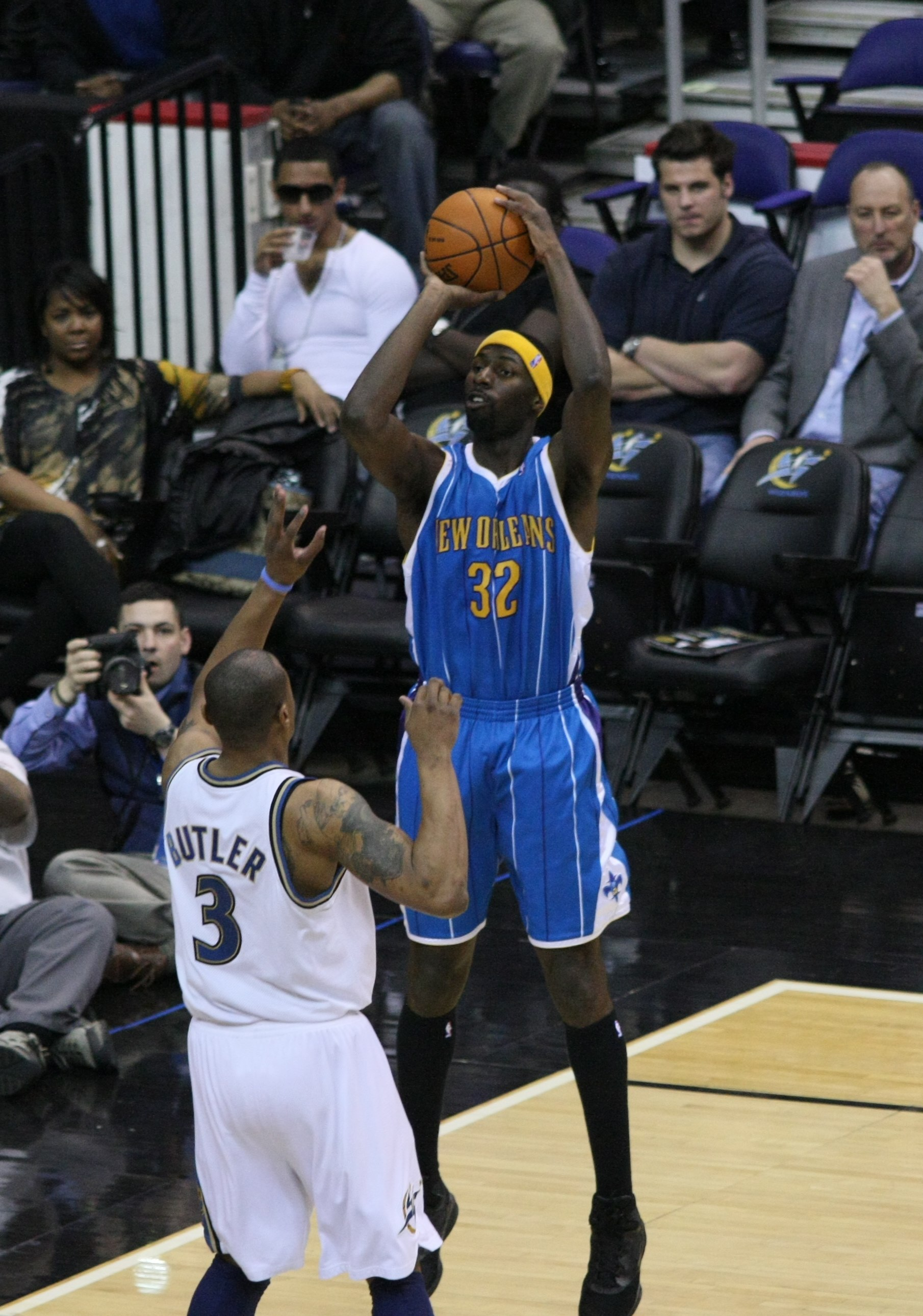 Julian Wright playing with the New Orleans Hornets